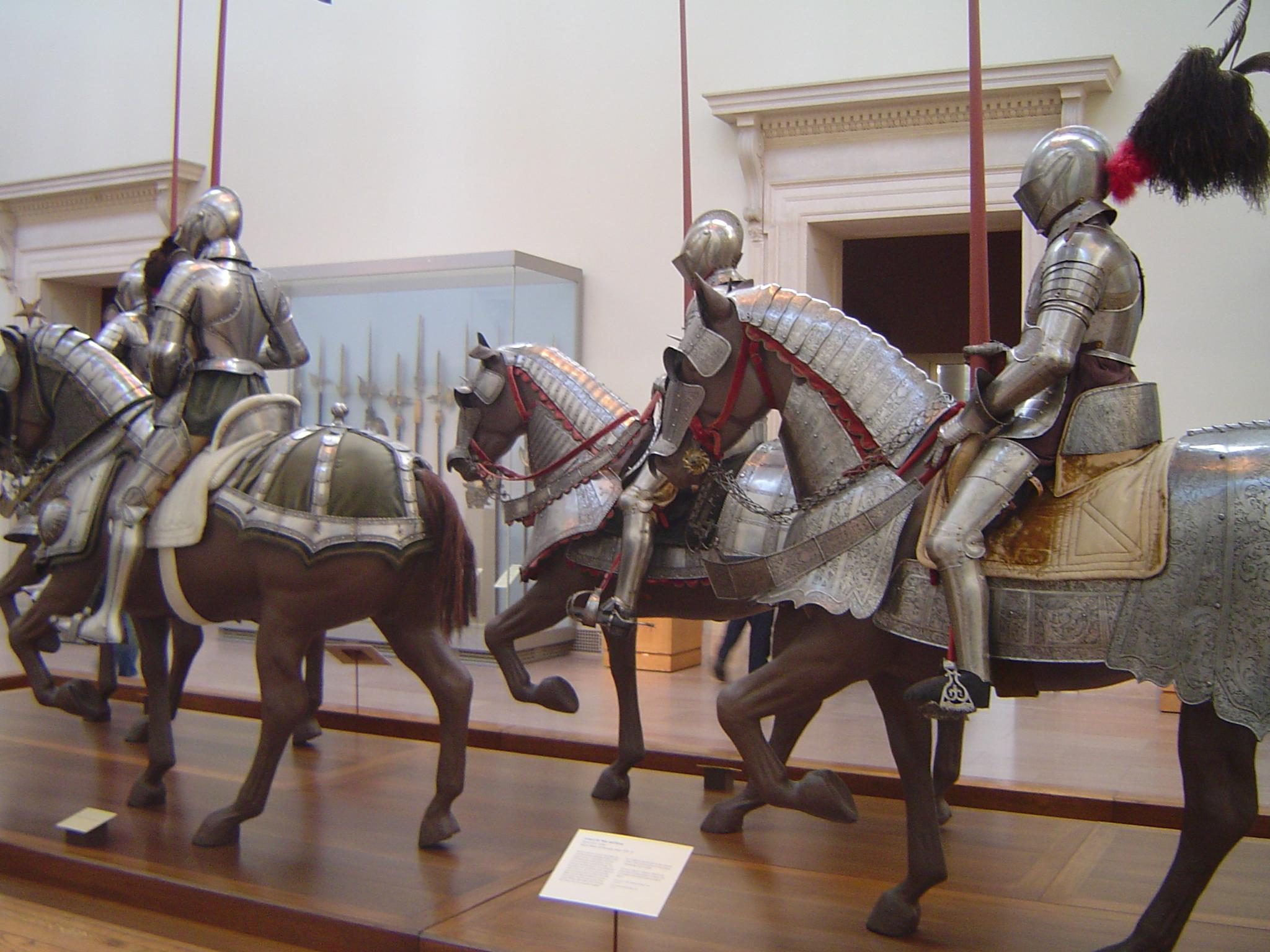 Metropolitan Museum, New York, USA